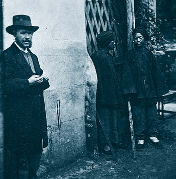 John Thomson, self portrait with Honan Soldiers. Honan Soldiers, 1871. Modern albumen stereograph from wet-collodion negative, by John Thomson. Taken in Amoy in 1871, one of the few images of Thomson in the Far East, also considered one of the few self-portraits of the photographer.